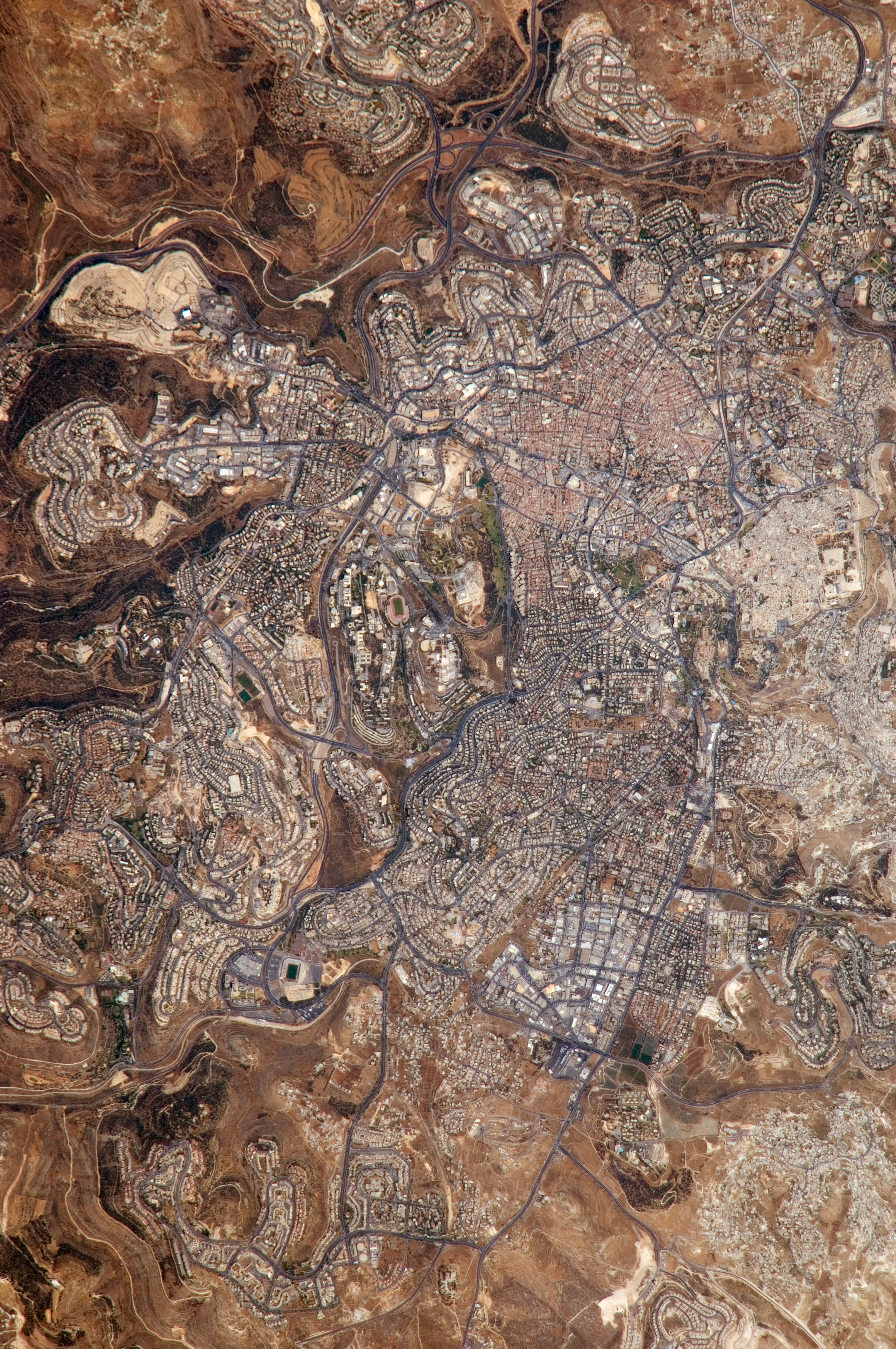 Jerusalem as seen from the International Space Station.